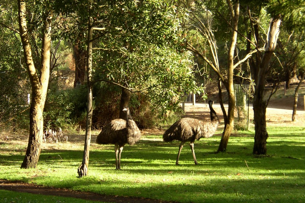 Emus in Victoria, Australia